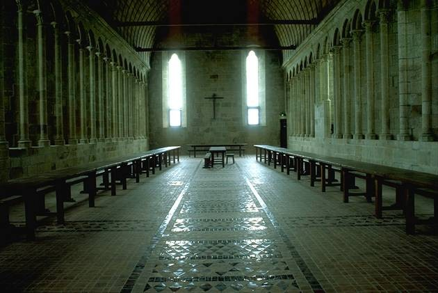 Refectory of the abbey of the Mont Saint-Michel.